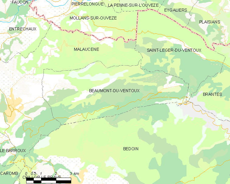 Map of French municipality Beaumont-du-Ventoux